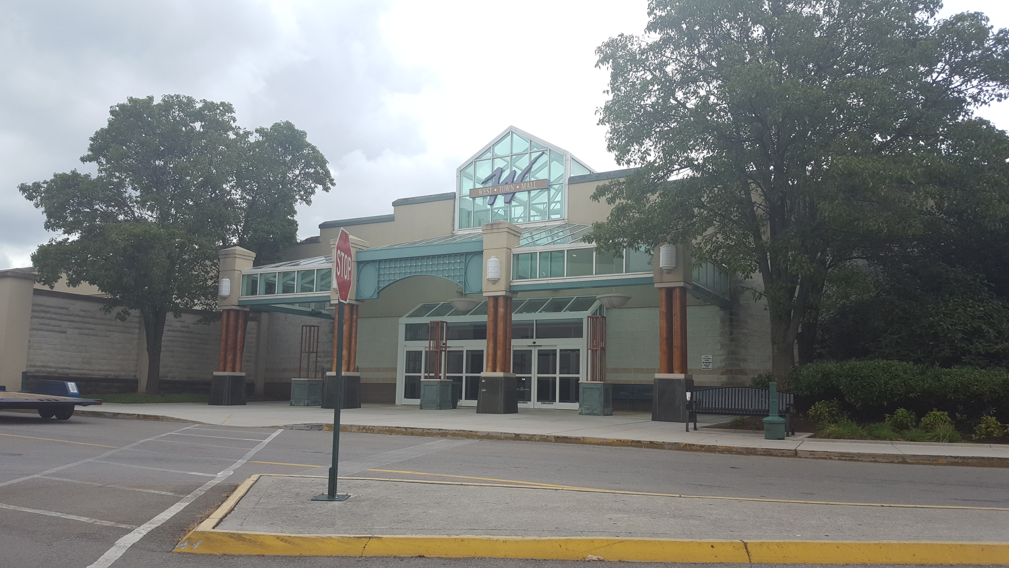 West Town Mall Knoxville, TN August 2016